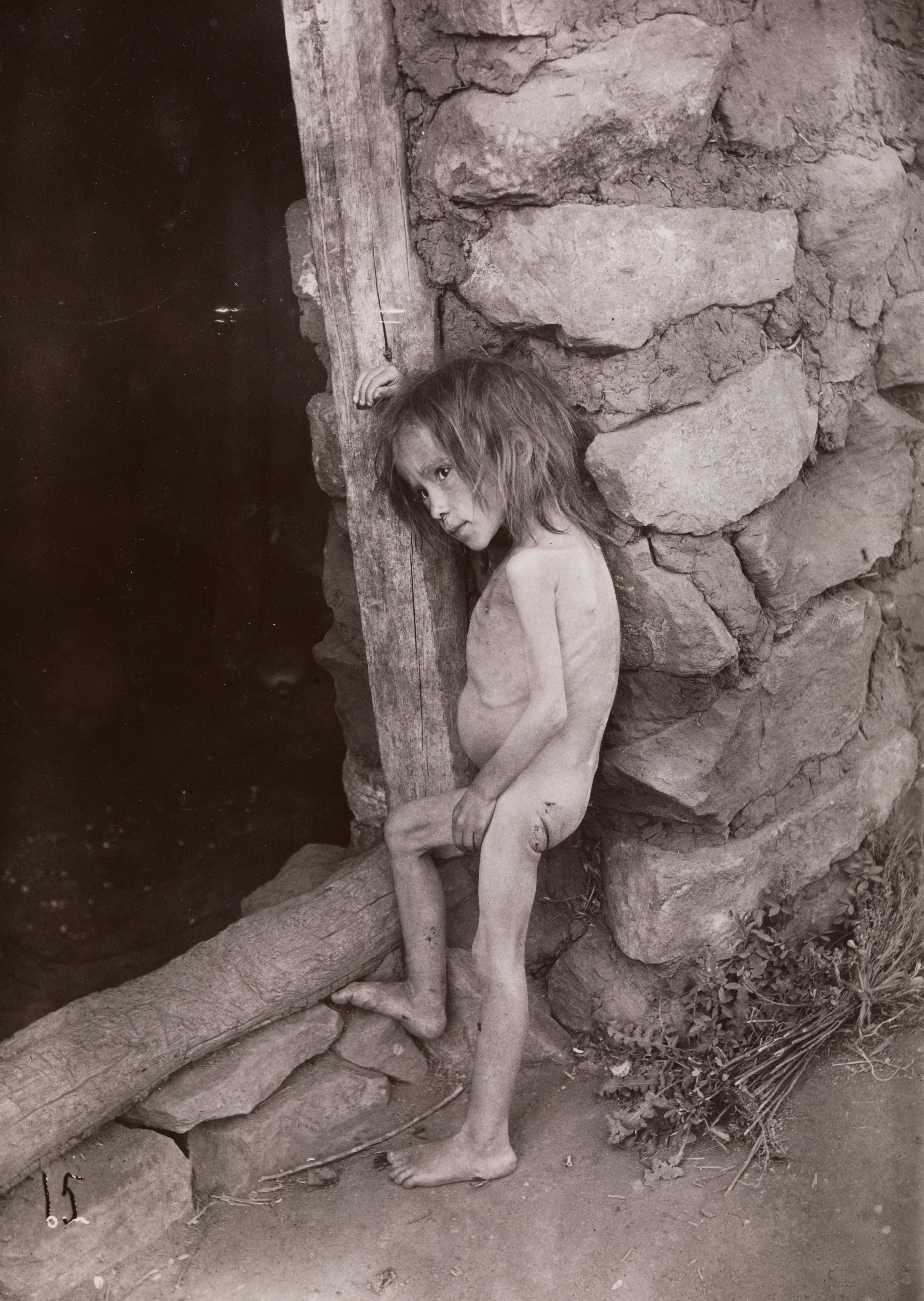 In the village S. Sojekjejevo. A starving 7 year old girl who has a swollen stomach due to prolonged starvation, and because she has eaten grass.